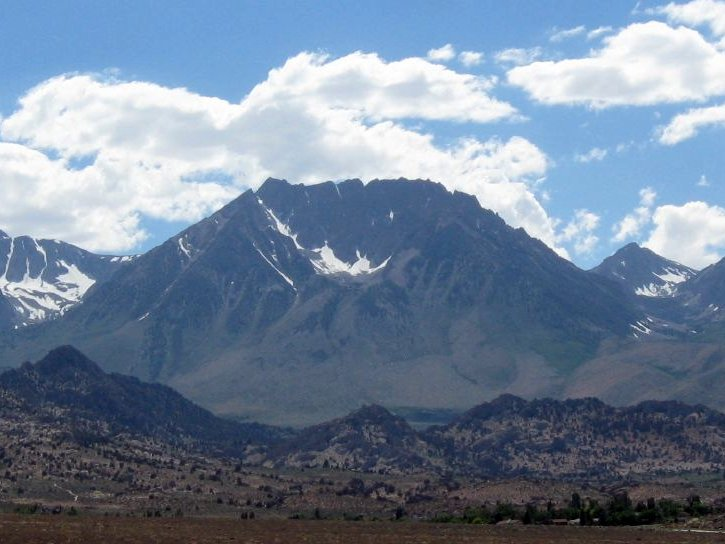 East face of Basin Mountain, seen from highway 168 near Bishop.